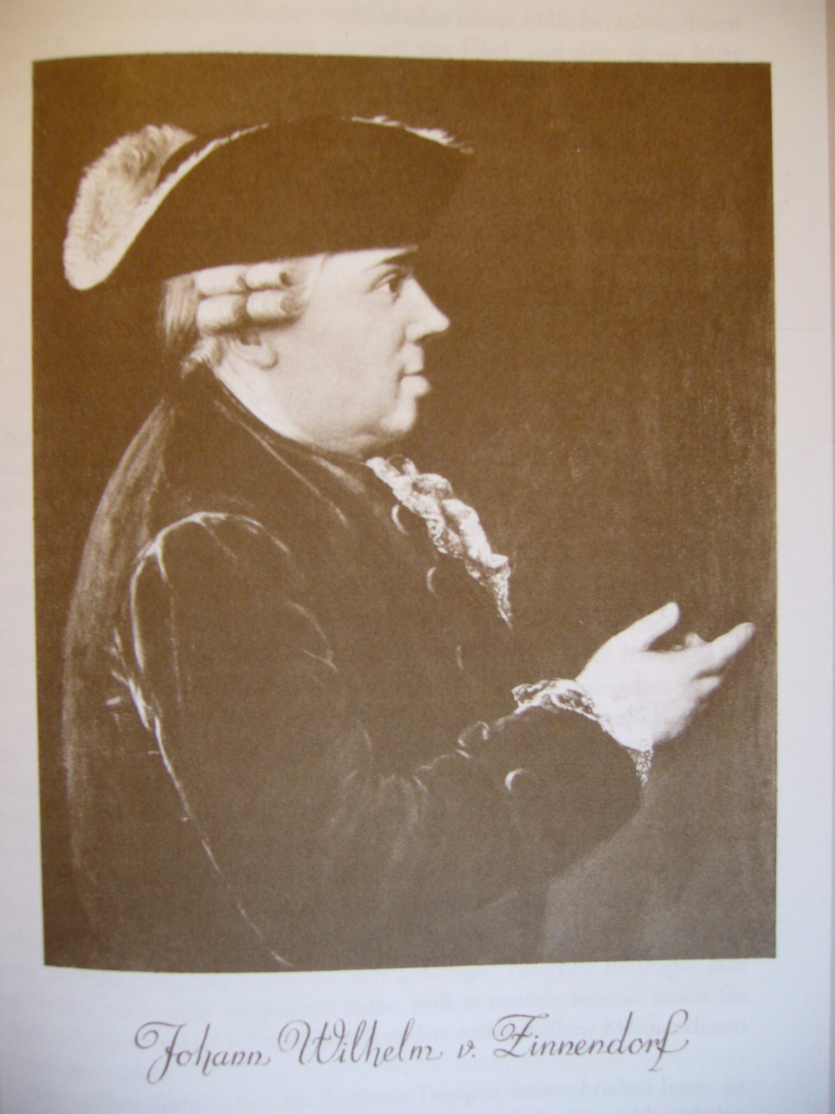 Baron Johann Wilhelm von Zinnendorf, Chief of the Mobile Army Surgical Hospitals under King Frederik the Great and creator of the Grand Lodge, Great lodge of Freemasons in Germany